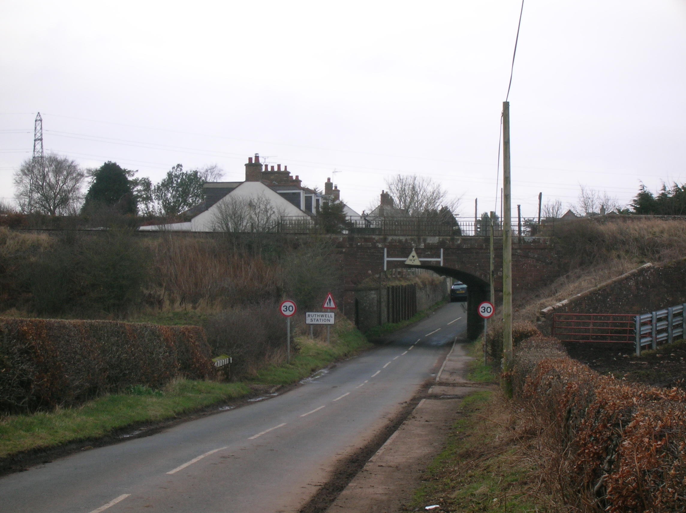 The entrance to Ruthwell Station village, Dumfries, Scotland. Glasgow - Kilmarnock - Dumfries - Carlisle line.